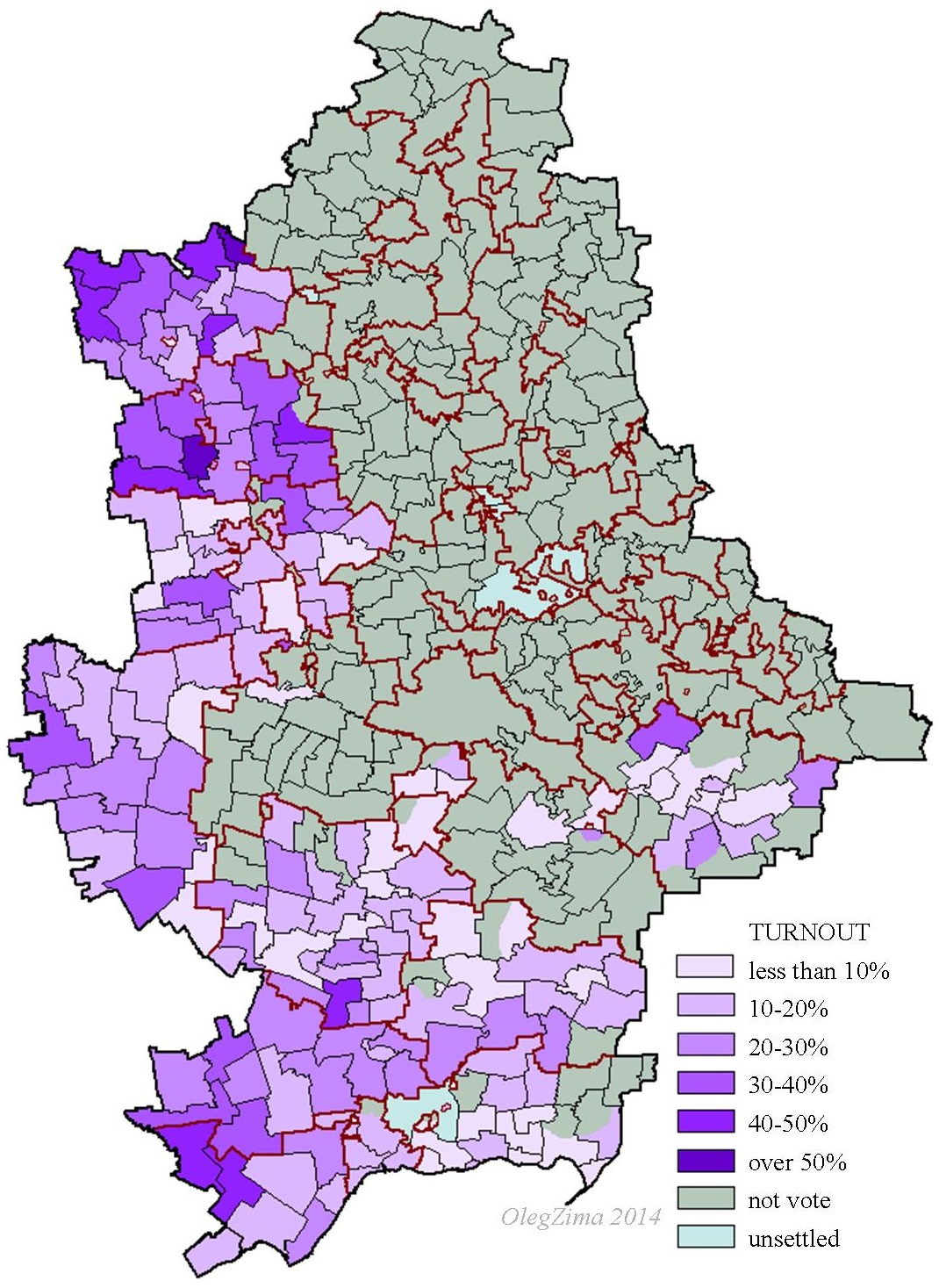 Voter turnout in Donetsk oblast of extraordinary presidential elections May 25, 2014